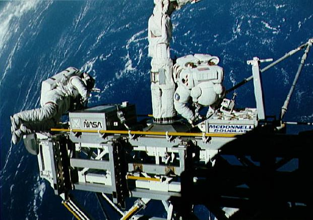 The ASEM is manipulated by the RMS while astronauts Kathryn Thornton and Thomas Akers are on an EVA during STS-49.